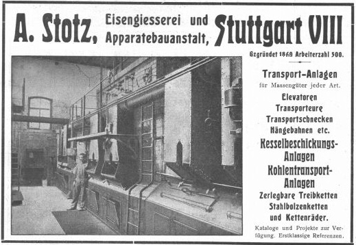 Advertisement of Albert Stotz Foundry in the Swiss journal 'Schweizer Bauzeitung' 1907